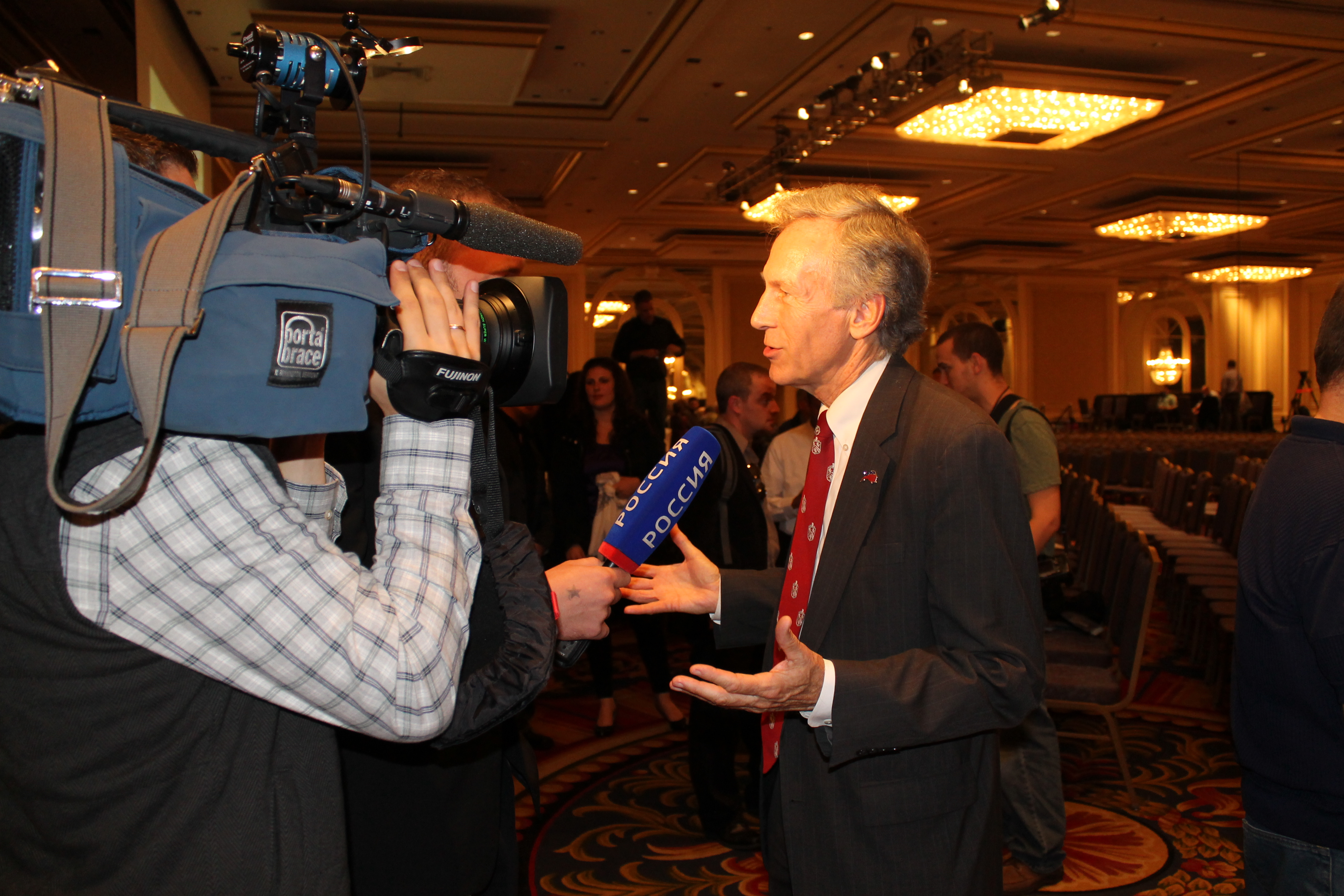 "Wasting your vote is voting for someone you don't believe in." - Gary Johnson Chicago saw an historical third party debate on Tuesday, October 23rd, 2012 at the Hilton Chicago, held by Free and Equal Elections . Larry King of CNN fame moderated an open debate, which all 6 candidates were invited to. Four attended: Jill Stein (Green Party), Rocky Anderson (Justice Party), Virgil Goode (Constitution Party), and Gary Johnson (Libertarian Party). Watch the whole video on CSPAN: For a fair and balanced news report about the debate, check out the following articles